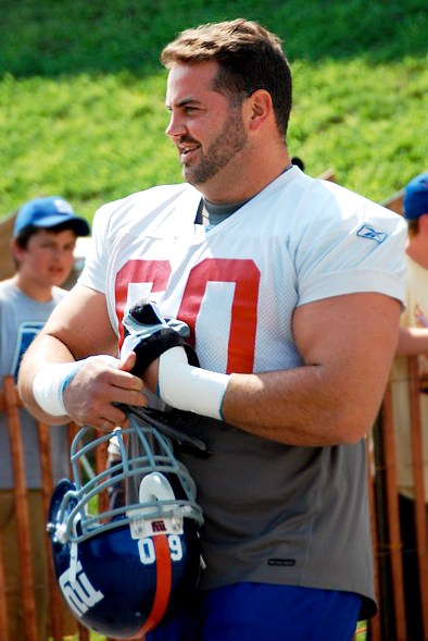 Shaun O'Hara during a 2007 training camp